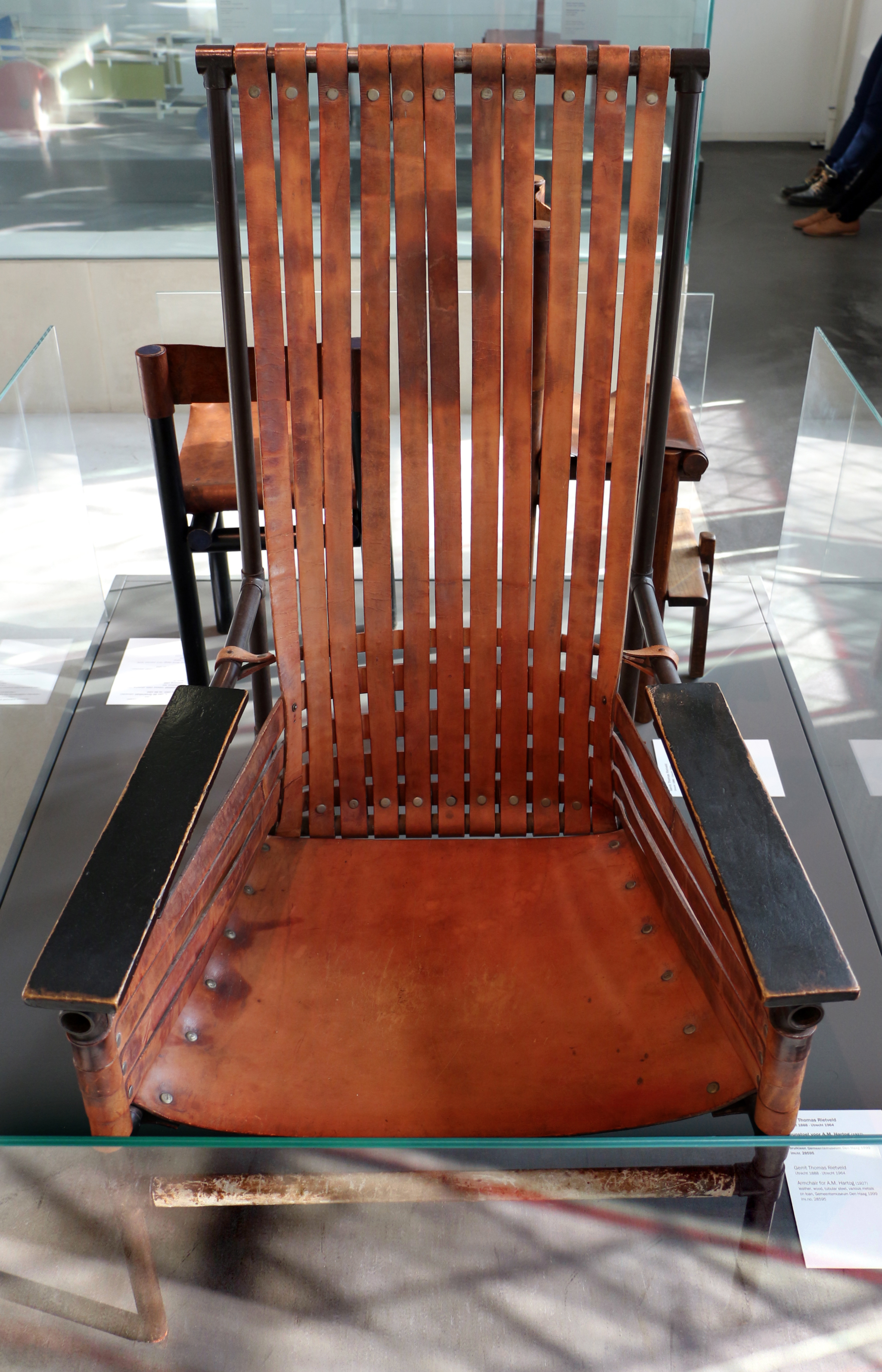 Gerrit rietveld, poltrona per a. m. hartog, 1927, 02.JPG